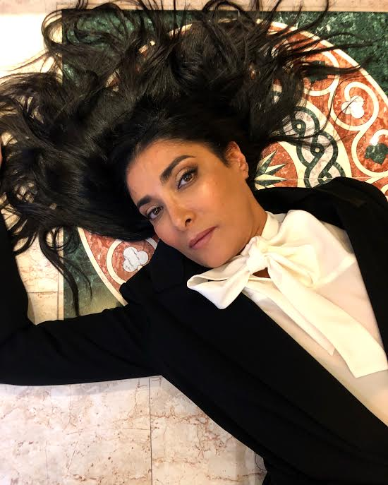 Photo backage of Fatima Adoum